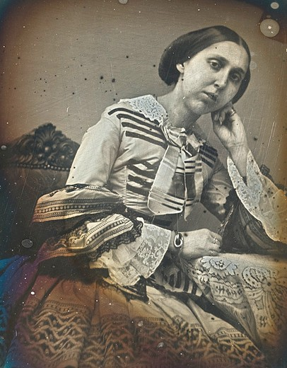 Daguerreotype photo of princess Eugénie (1830-1889)